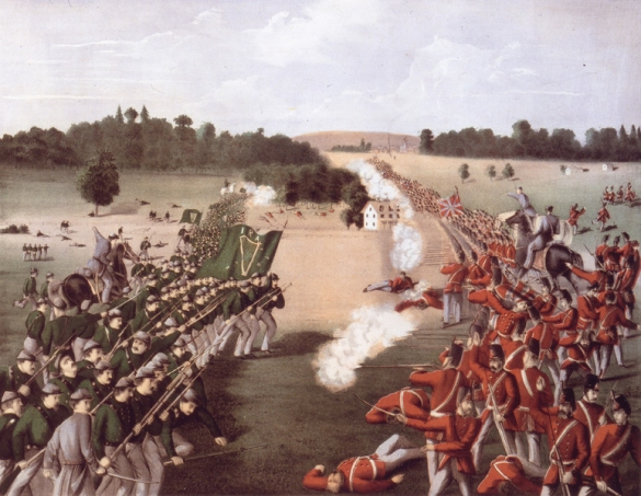 Battle_of_Ridgeway.jpg (205KB, MIME type: image/jpeg) The Battle of Ridgeway. 1869 illustration from Library and Archives Canada, C-018737.